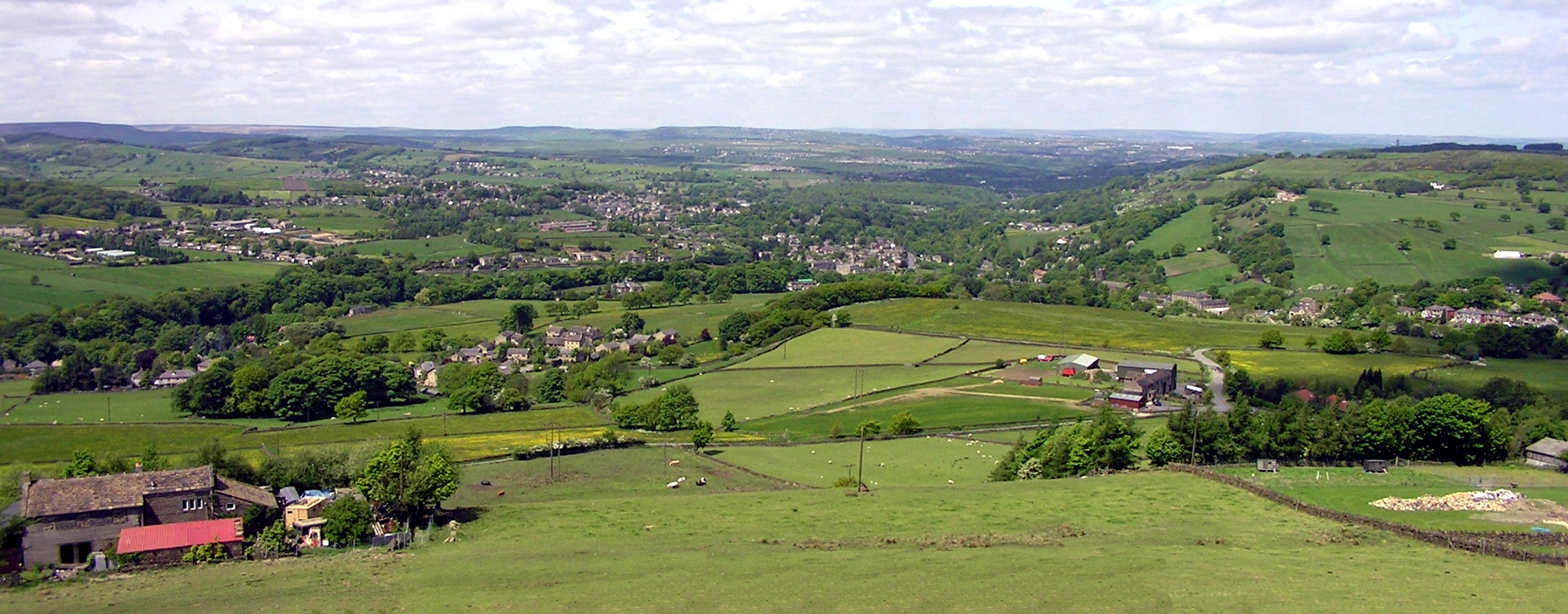 View of The upper Holme Valley, West Yorkshire, england